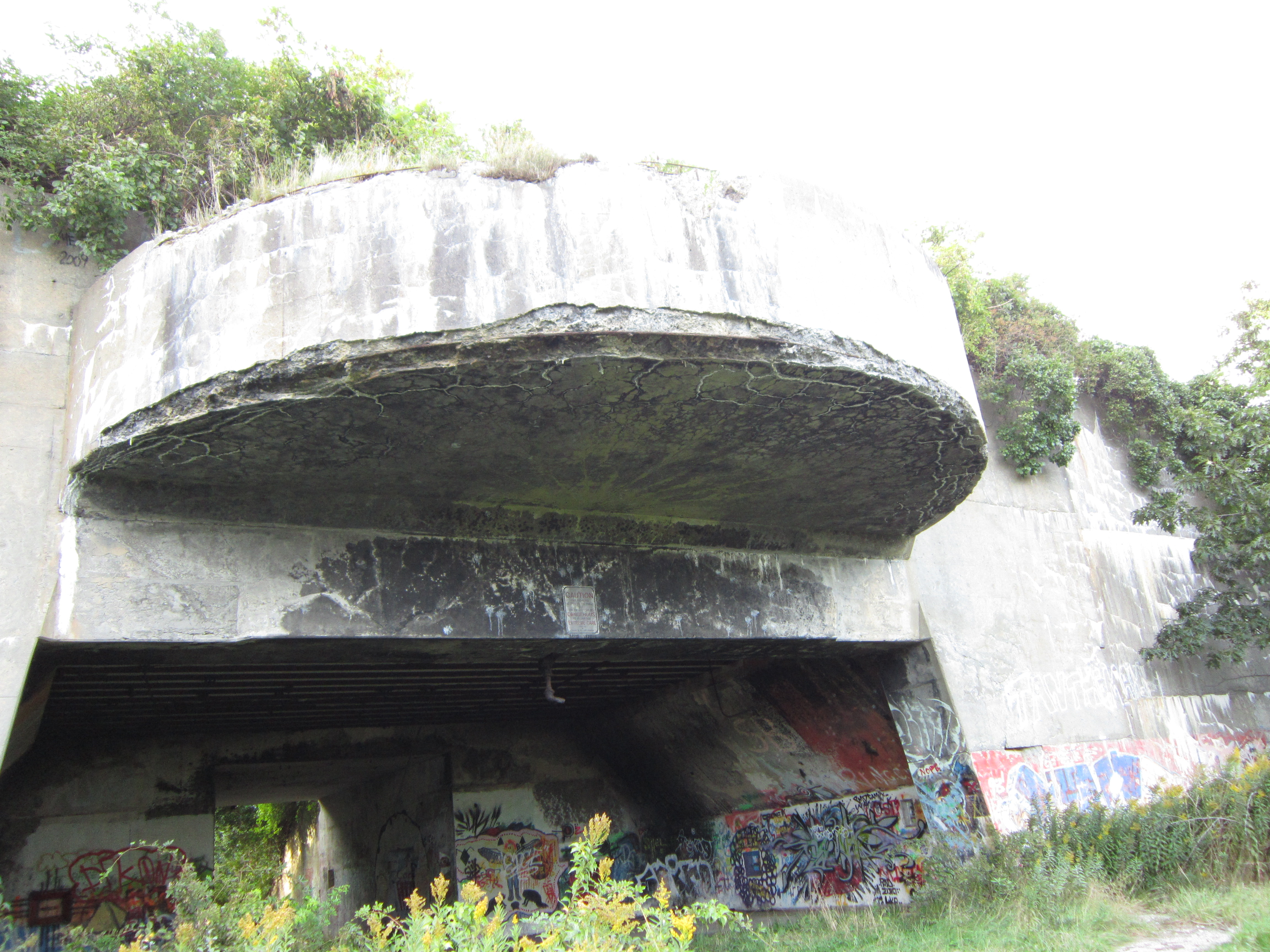 Battery Steele of Peaks Islands, Portland, Maine